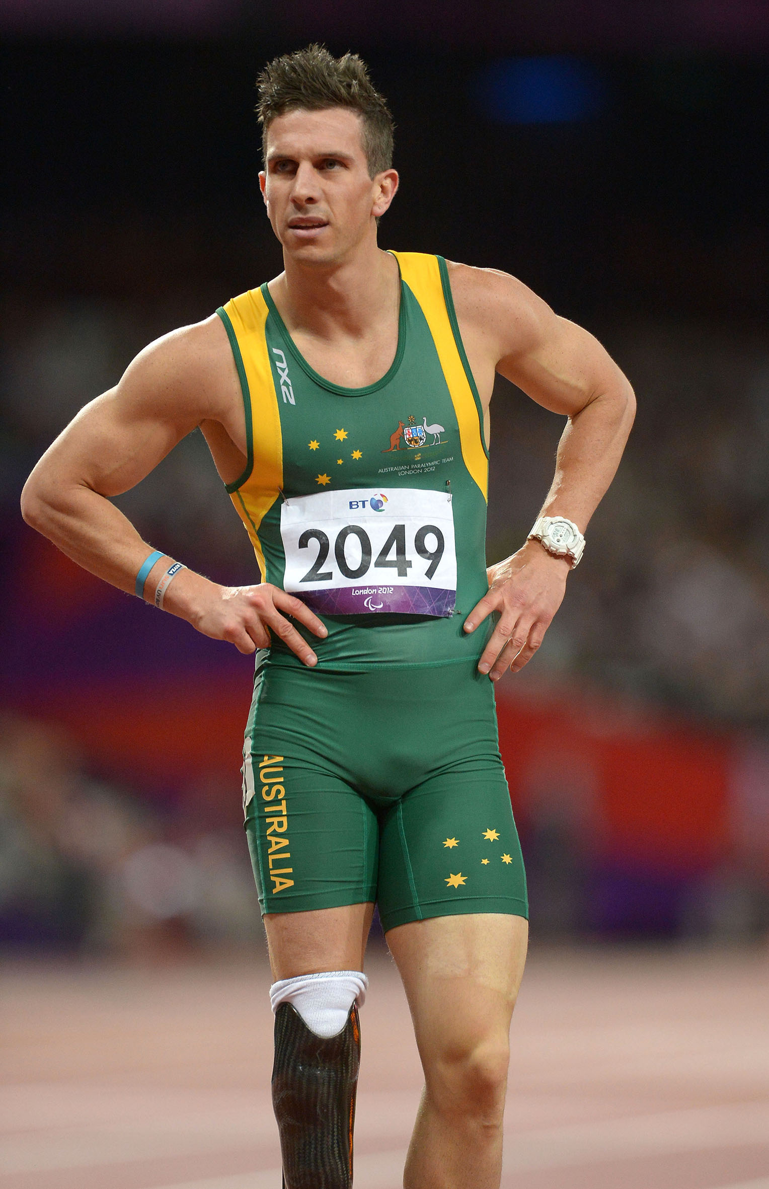 Photograph of Australian Paralympic team member Jack Swift at the 2012 Summer Paralympic Games in London